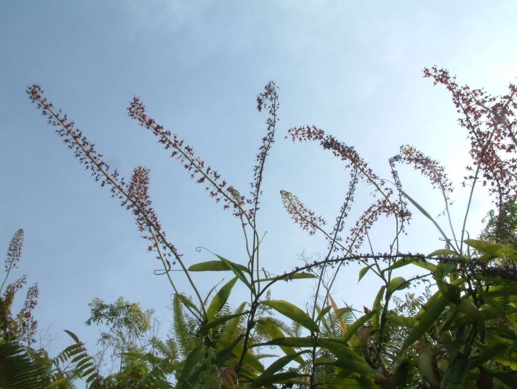 Nepenthes maxima from Sulawesi (400 m altitude)